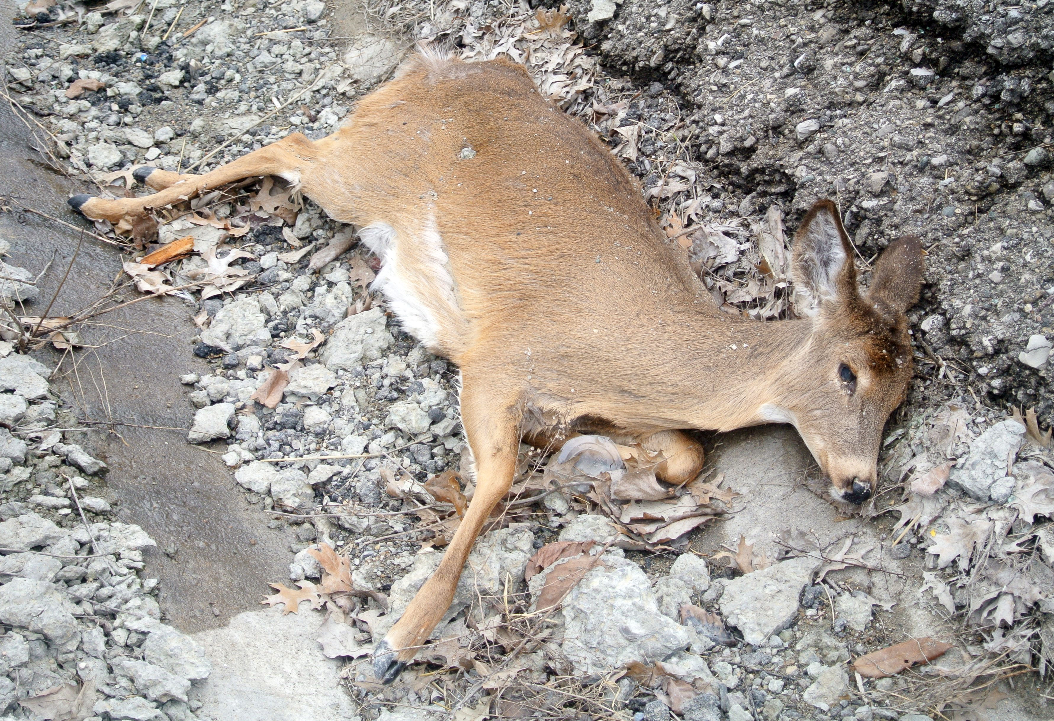 Roadkilled deer just south of Richmond, Indiana.